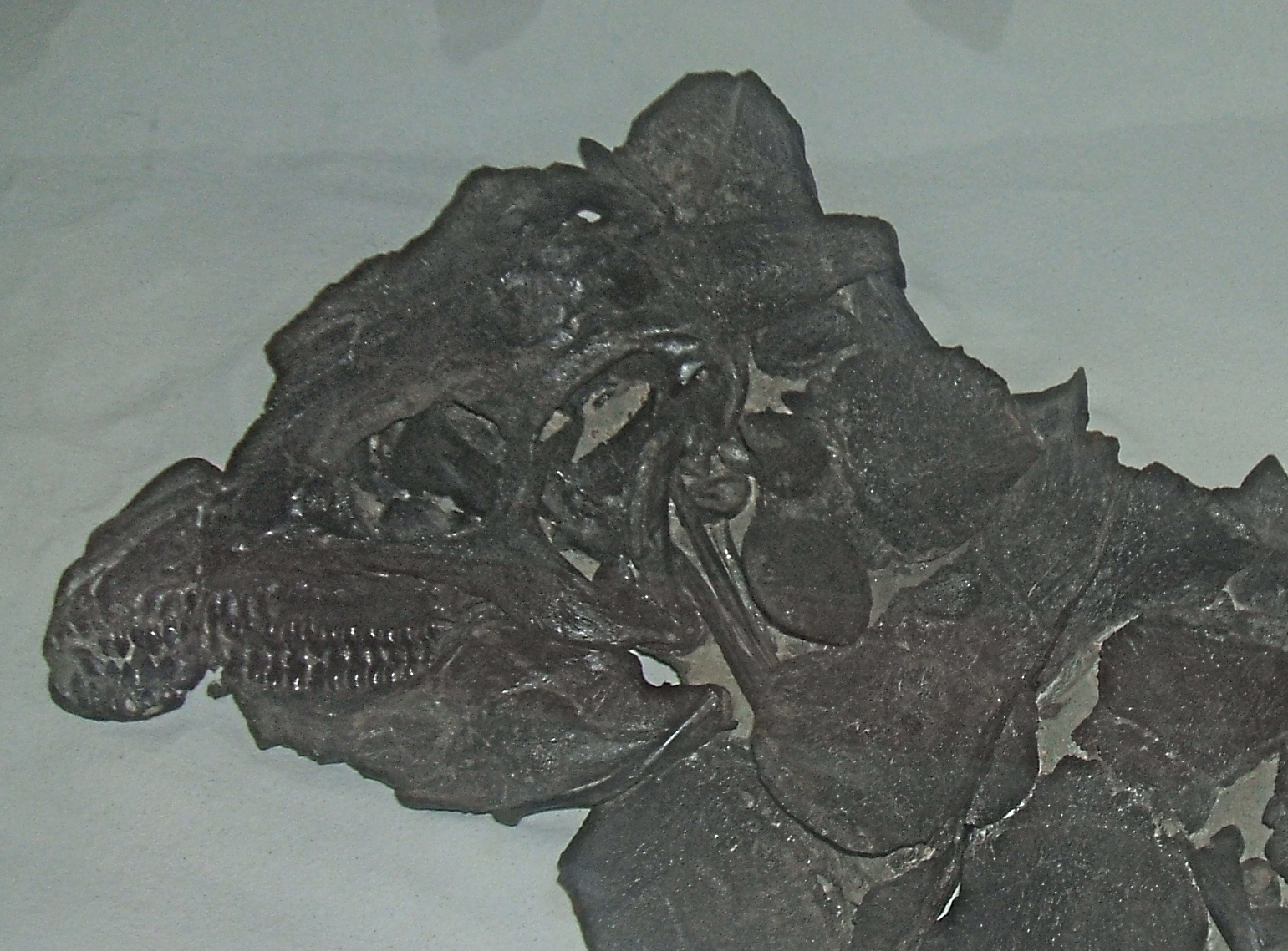 Taken by me at Bristol Museum for Wikinews article. Cropped from larger photograph taken by me